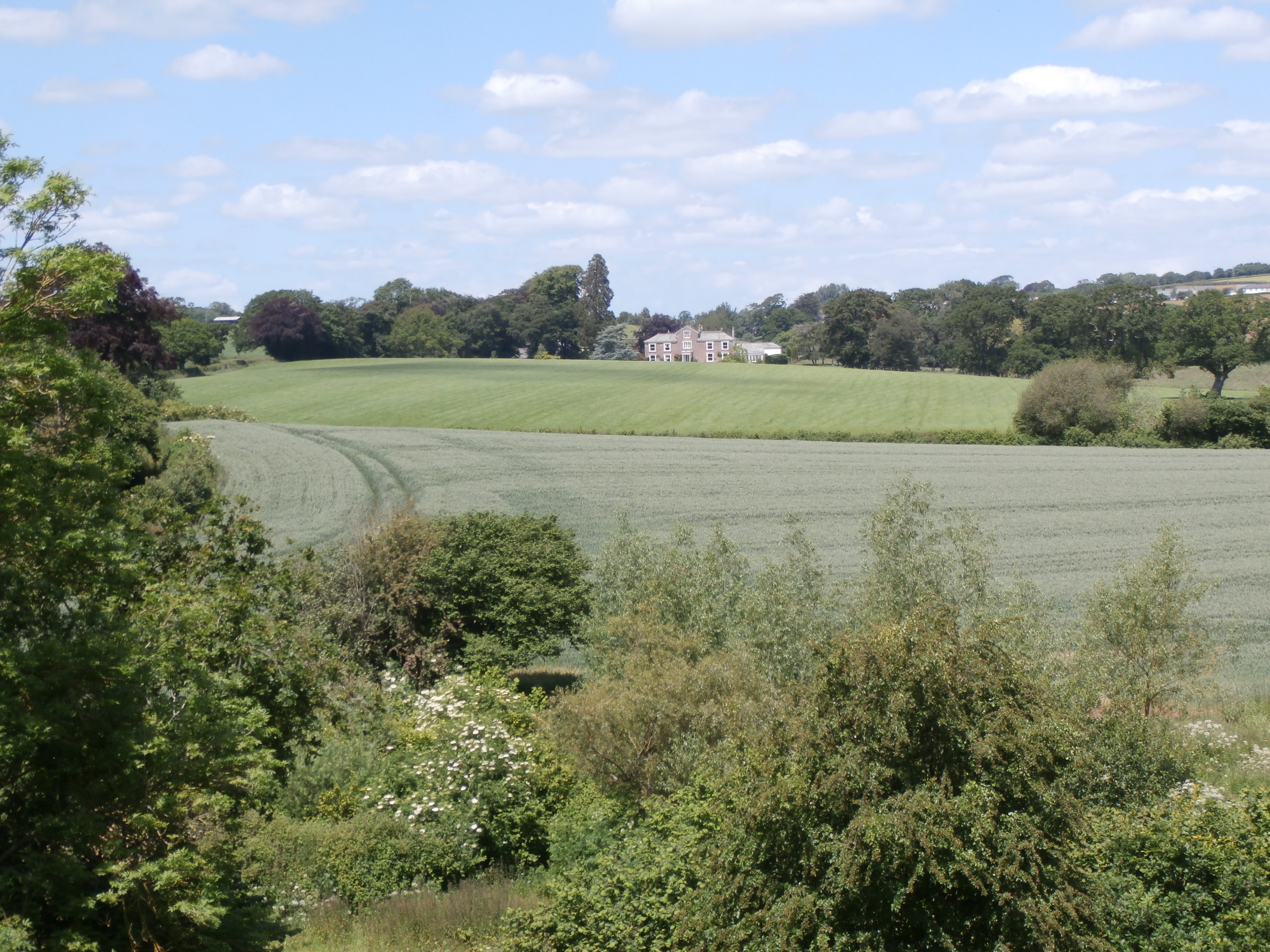 Coplestone House, Colebrooke, Devon, setting viewed from south